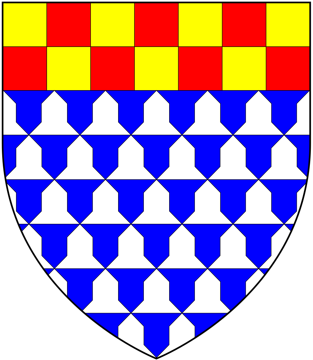 Arms of Fleming, of Bratton Fleming in Devon, and Baron Slane of Ireland: Vair, a chief chequy or and gules (per Pole, Sir William (d.1635), Collections Towards a Description of the County of Devon, Sir John-William de la Pole (ed.), London, 1791, p.484; Lysons, Magna Britannia, 1822, vol.6, Devon, Families removed since 1620; Powell Roll of Arms (c.1350), Bodleian Library, Oxford; Burke's General Armory)